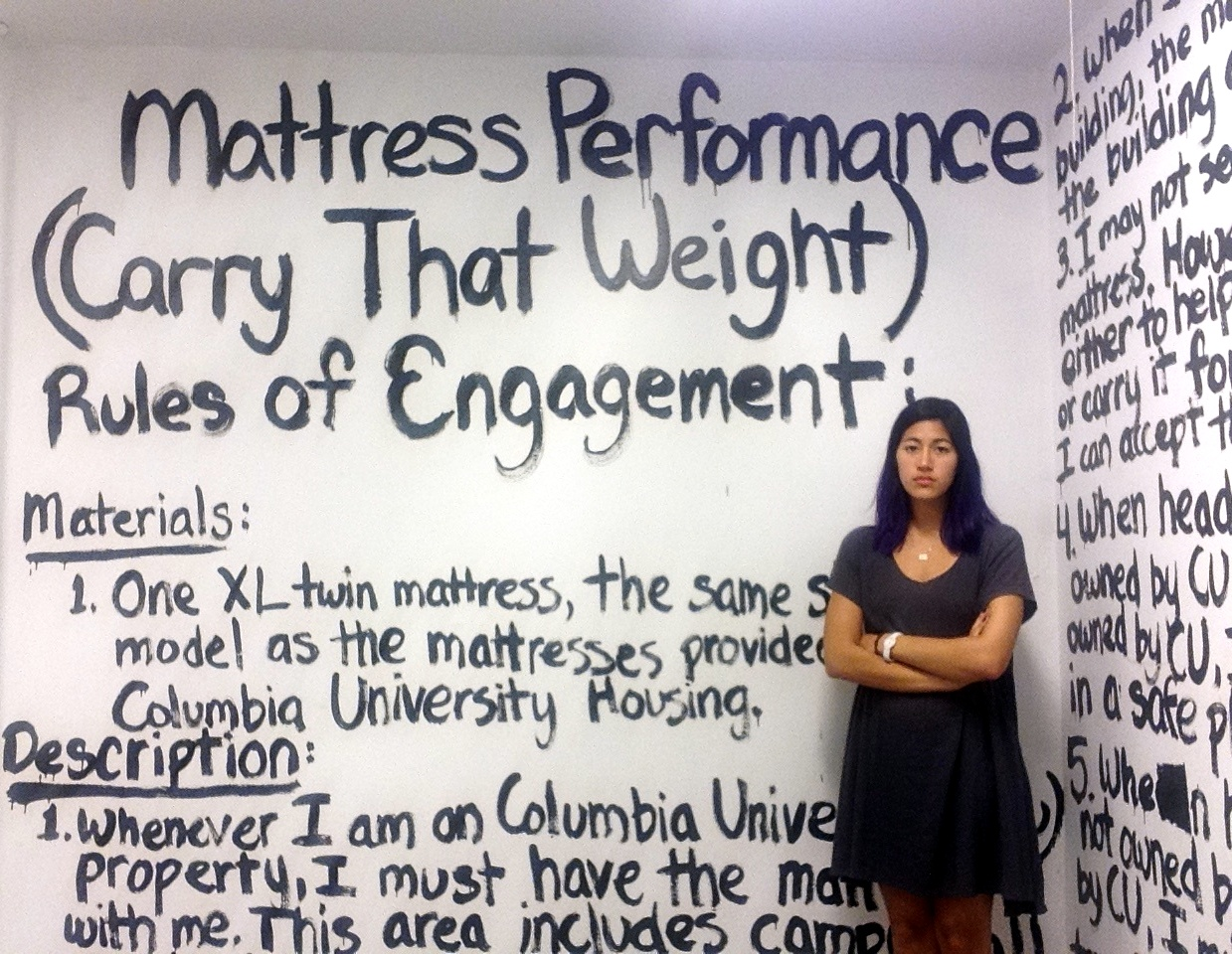 Emma Sulkowicz and the rules of engagement of Mattress Performance:Carry That Weight (2014–2015).